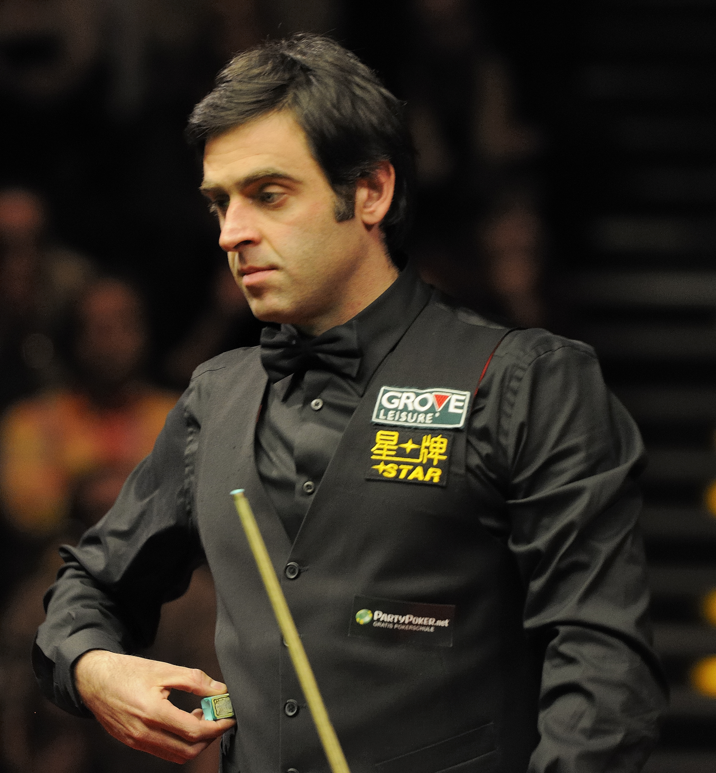 Picture taken in Berlin during the Snooker German Masters in 2011. Ronnie O’Sullivan.